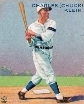 1933 Chuck Klein Baseball card. Copyright records indicated that the copyright wasn't renewed, thus it's in the public domain.